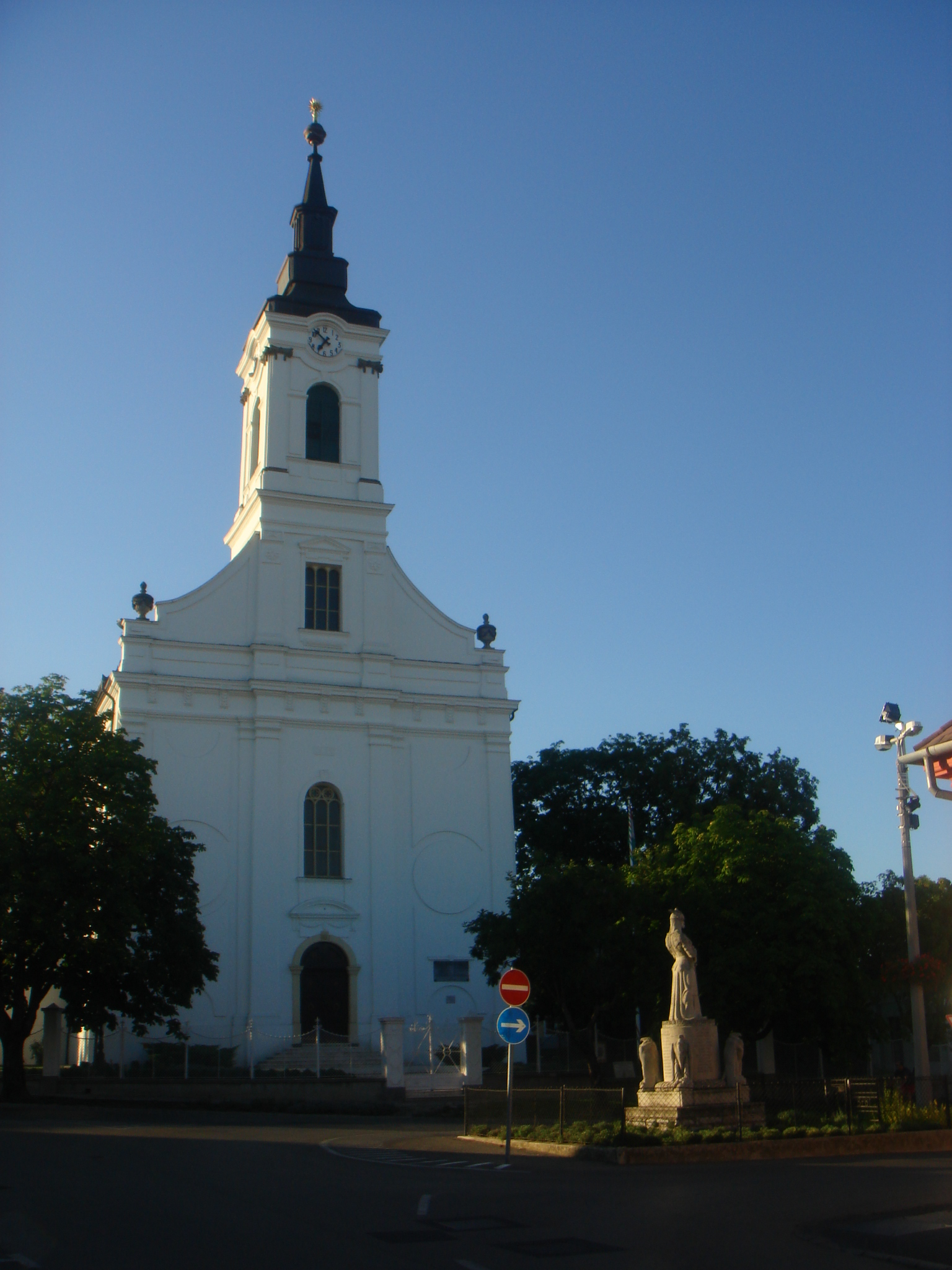 Picture of the White Church in Old Fured.